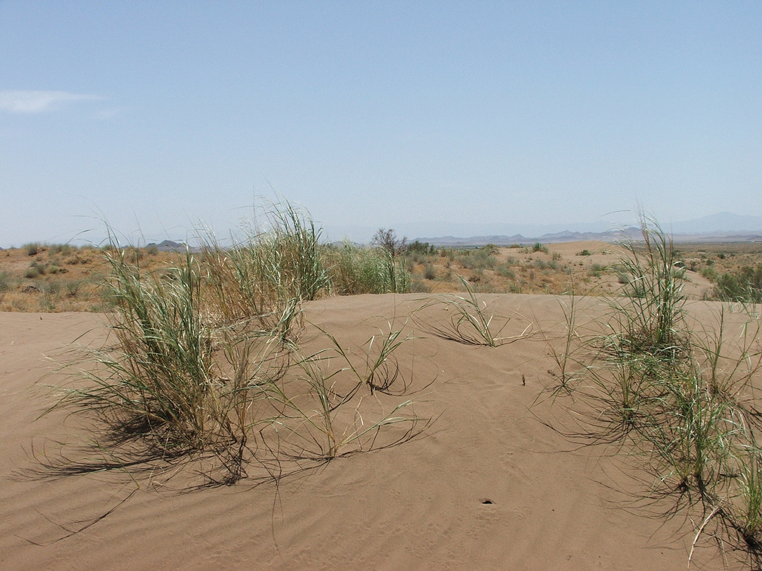 Figure 9; Typical habitat of Ph. mystaceus khorasanus ssp. n. at the type locality in the vicinity of Gonabad, Khorasan Razavi Province, Iran